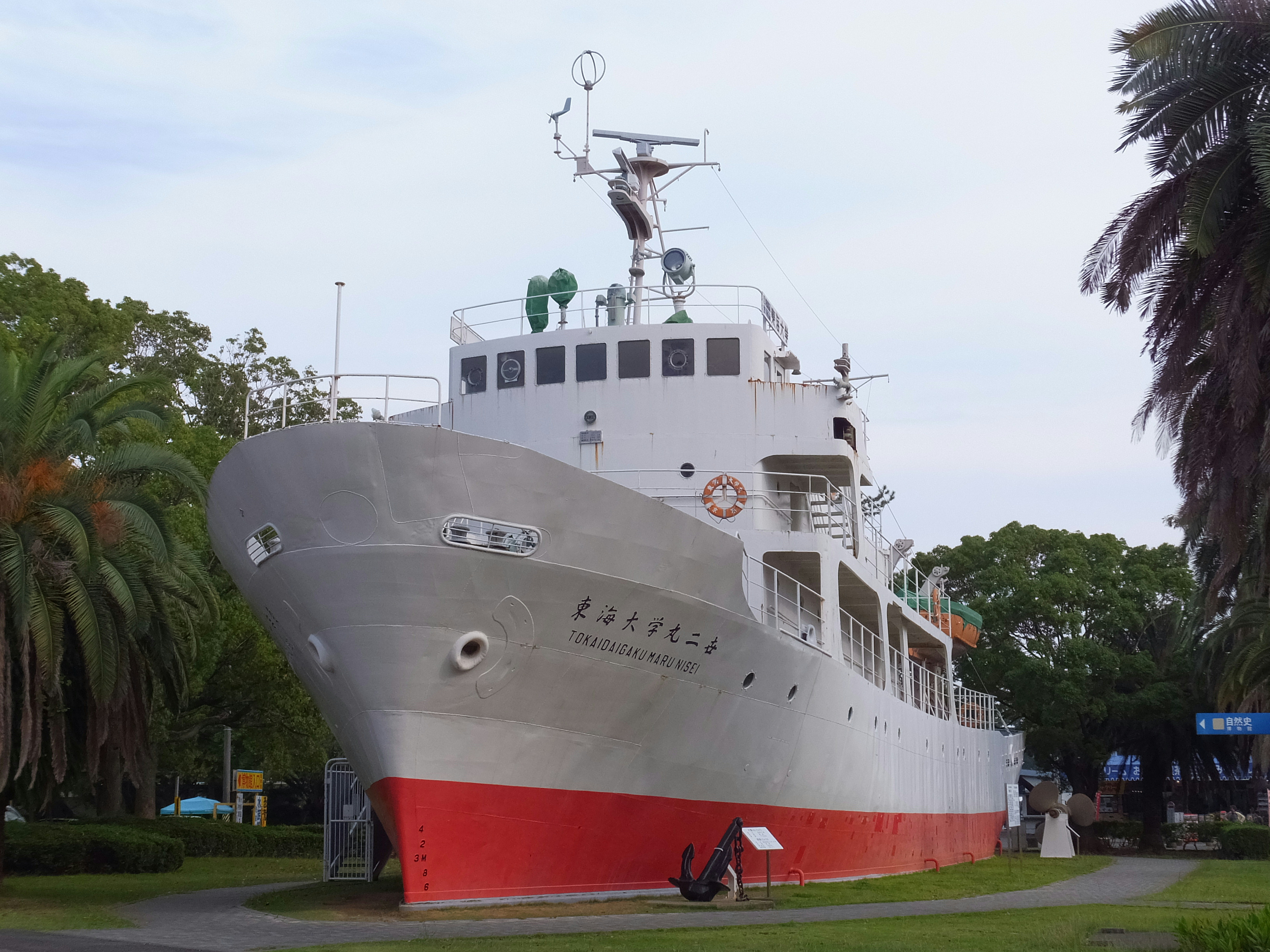 Tokai University, Research and Training Vessel "Tokaidaigaku-Maru Nisei" (1968-1993).